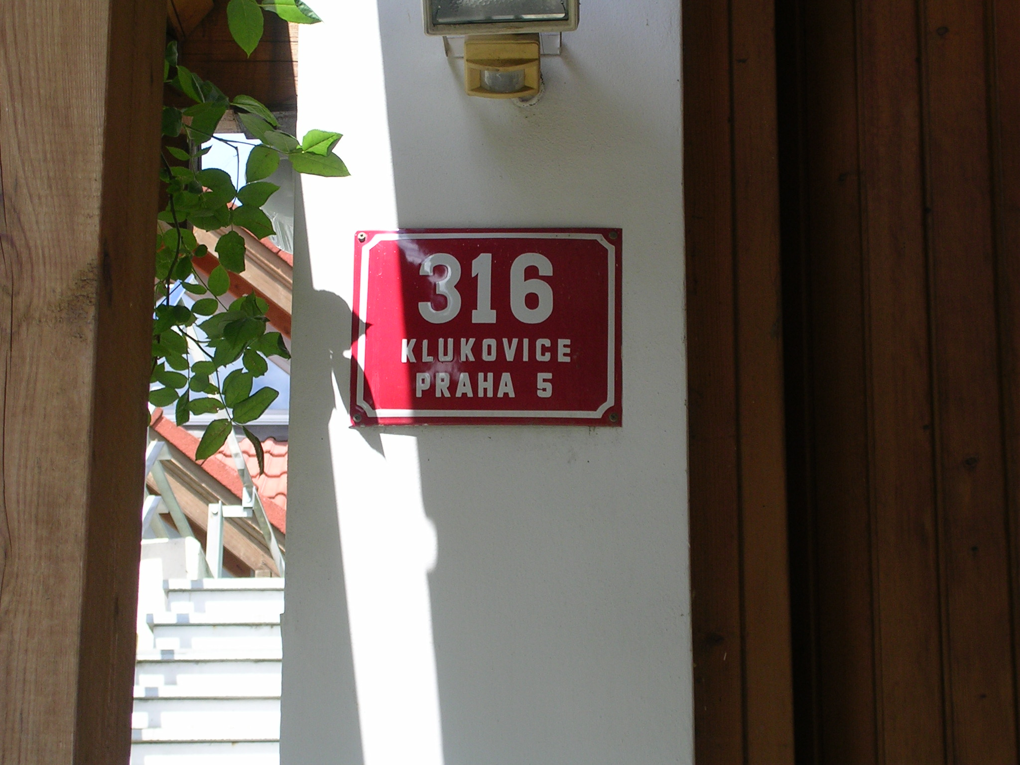 Hlubočepy, Prague, the Czech Republic. Klukovice.